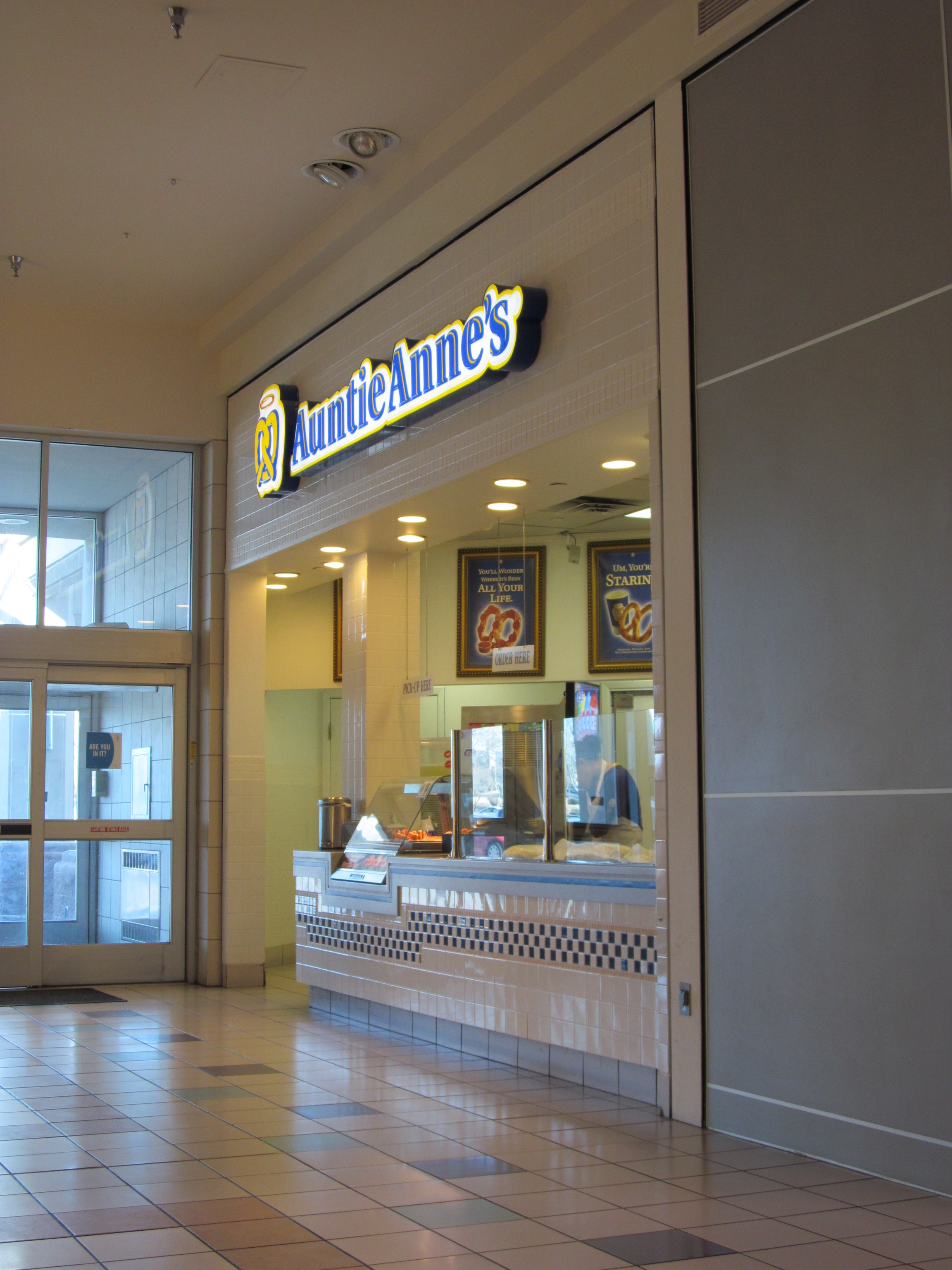 Auntie Anne's, Cottonwood Mall, Albuquerque New Mexico